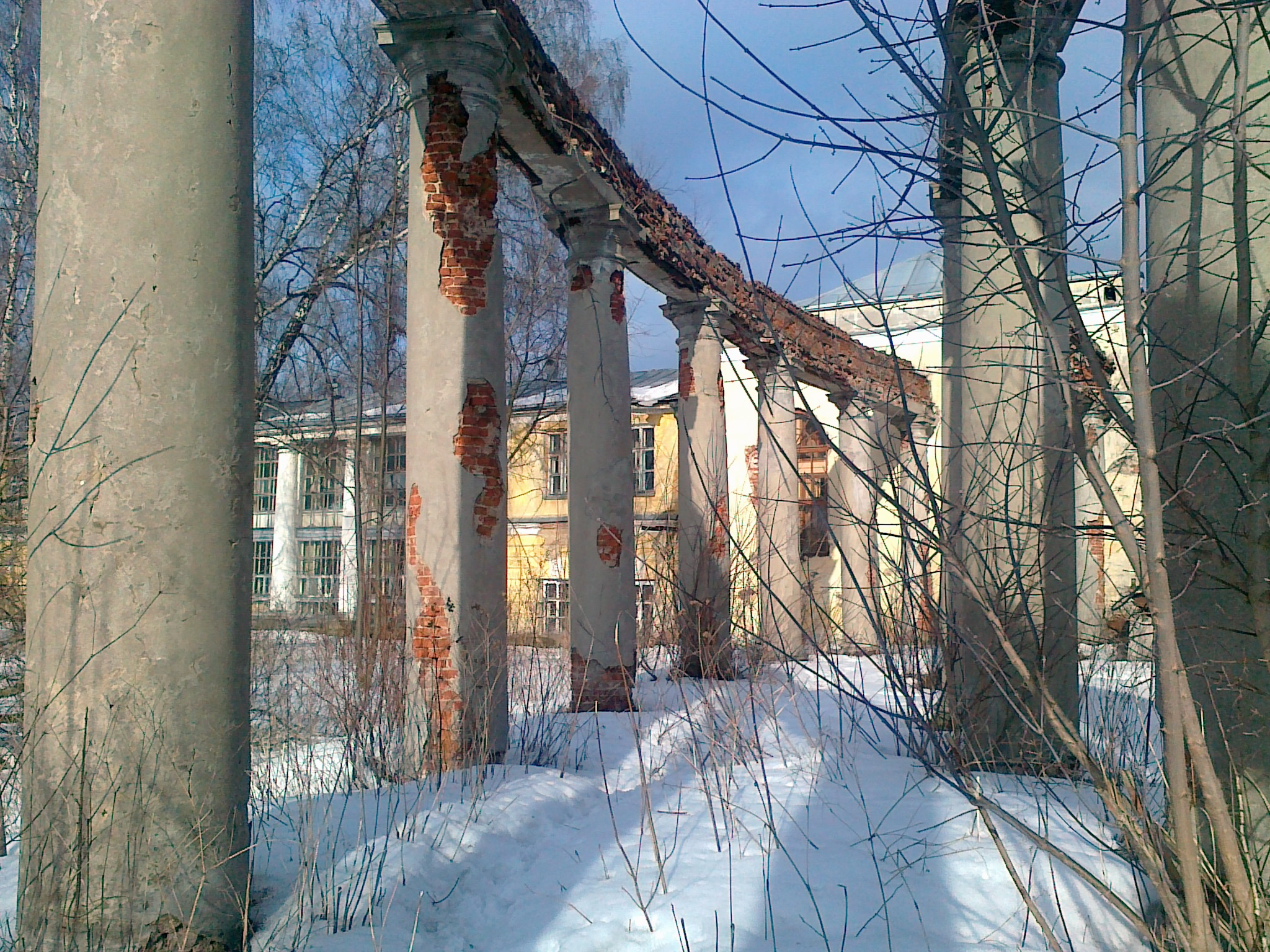 Усадьба Горенки. Западная галерея